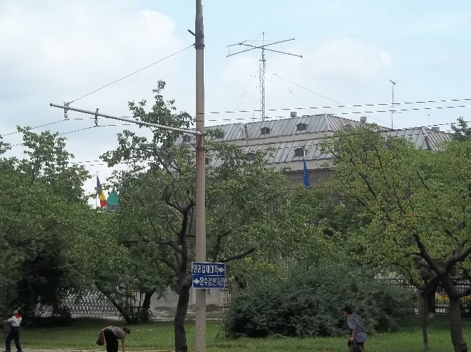 Embassy of Romania in the Democratic Peoples Republic of Korea